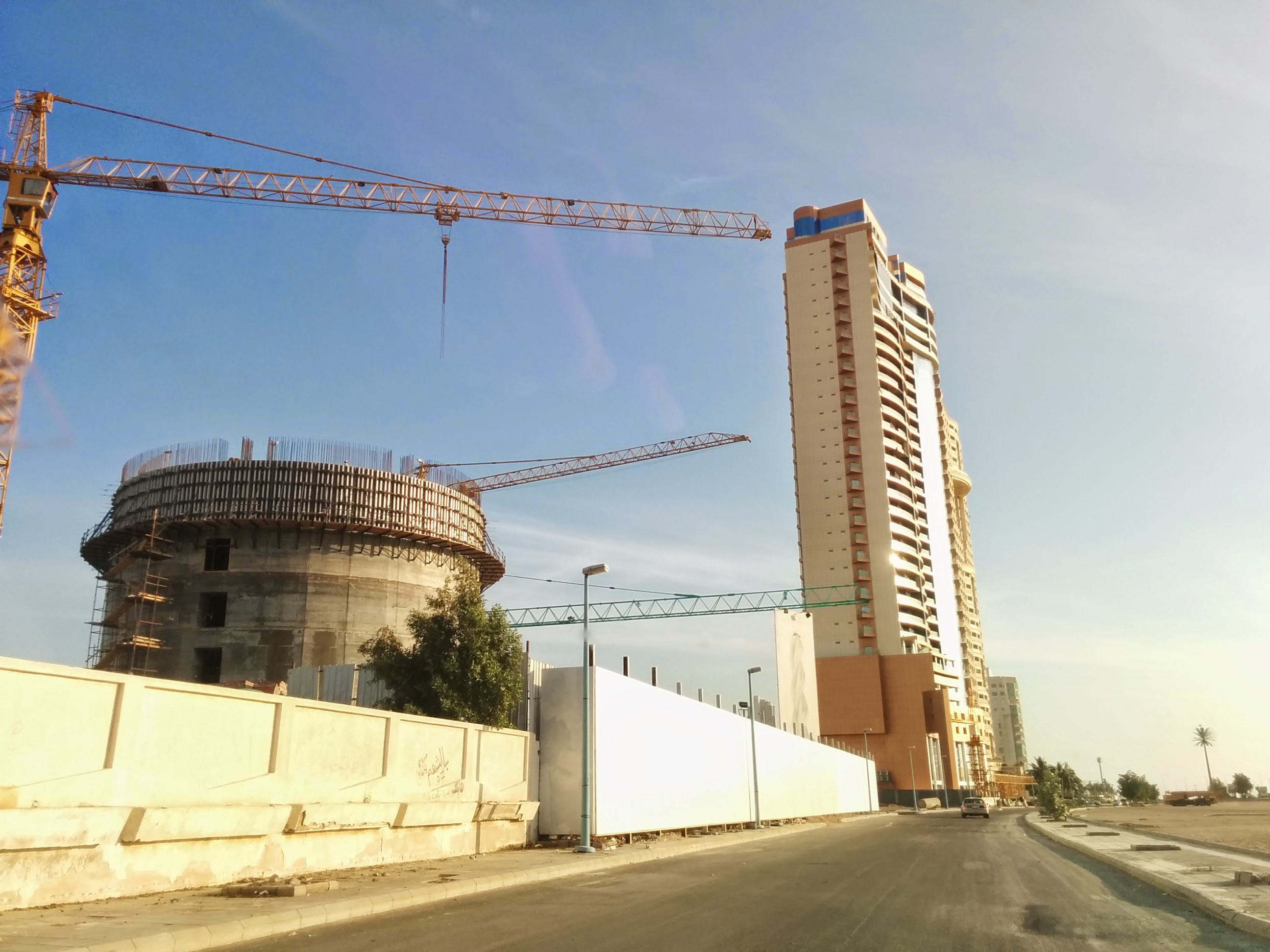 Diamond Tower under construction in Jeddah, Saudi Arabia, as of Jan 5, 2015.